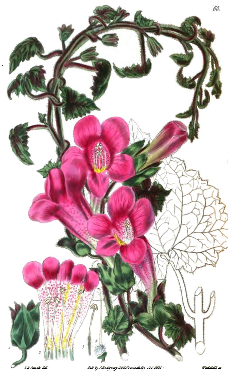 First published image of Lophospermum erubescens (initially misidentified as L. scandens). Yellowing on the right of the image (source below) cleaned up.